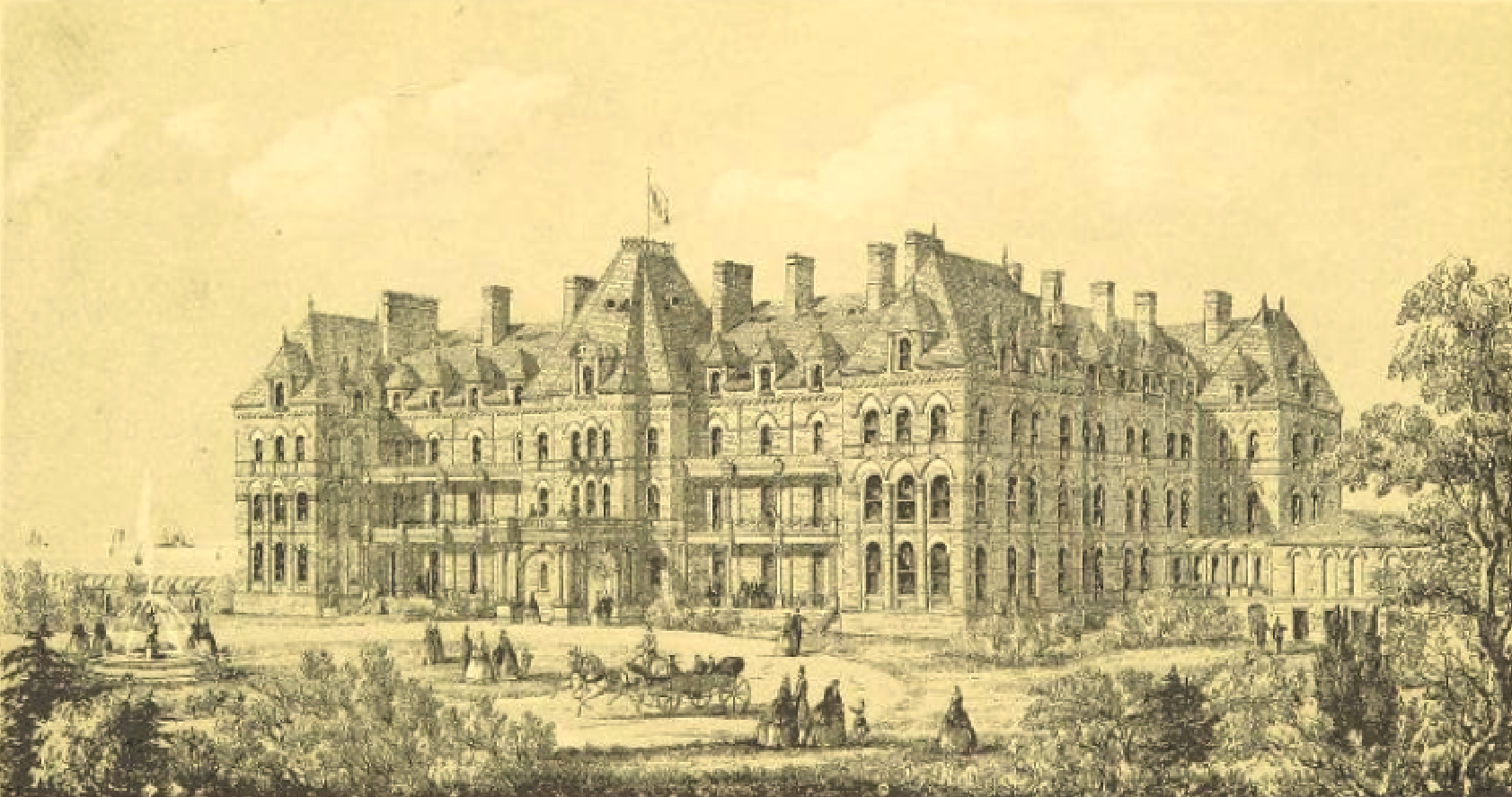 Image taken from page 8 of 'Summer Rambles in Cheshire, Derbyshire, Lancashire, and Yorkshire. Author: GRINDON, Leopold Hartley. Published 1866. No known copyright restrictions